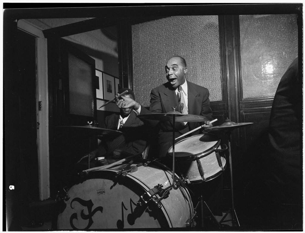 Freddie Moore, William P. Gottlieb's office party, Queens, New York